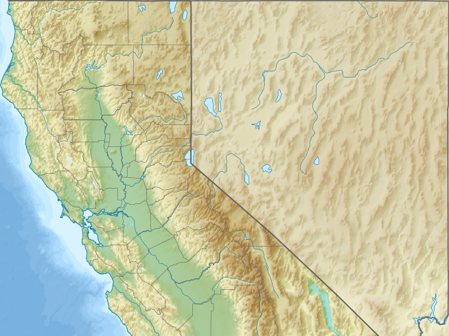 Relief map of California, USA.